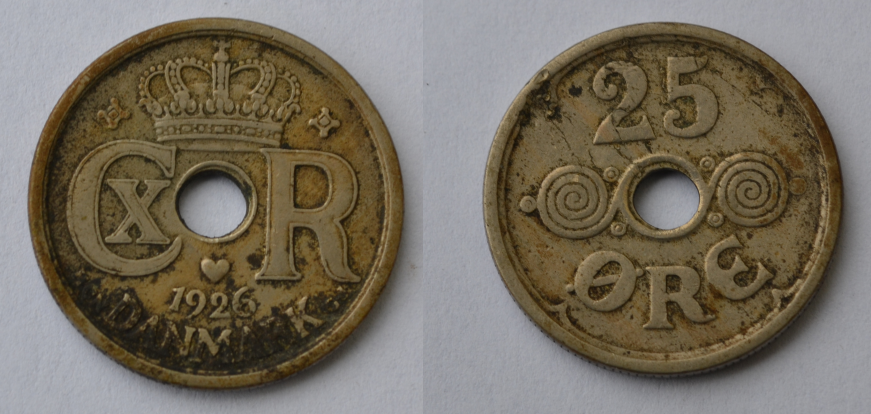 A 1926 Cupro-Nickel Danish 25 øre coin - both sides